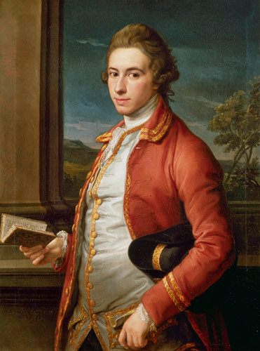 "Sir William FitzHerbert (1748-91), gentleman-usher to King George III". Fitzherbert of Tissington Hall